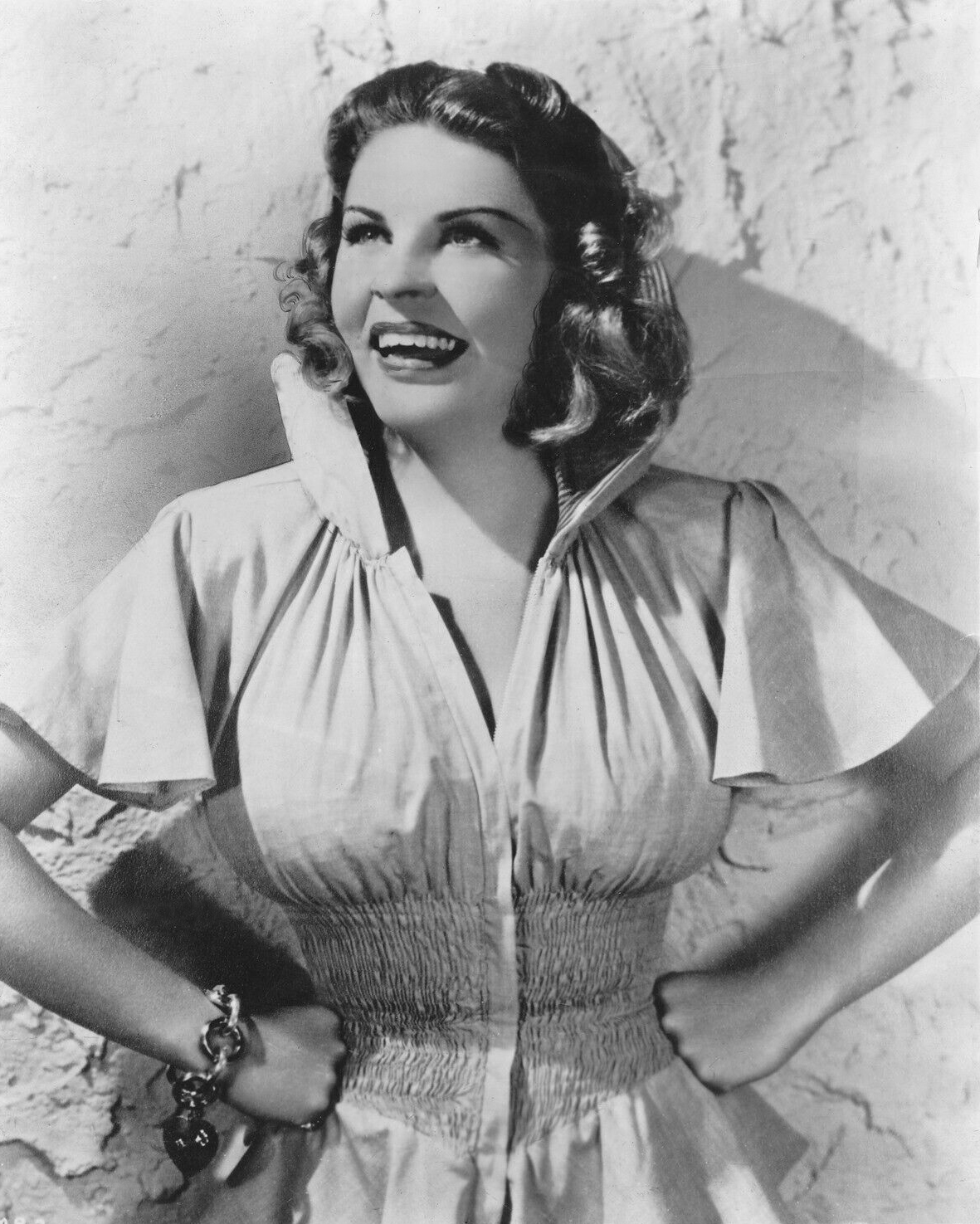 Depicted person: Martha Raye – American comic actress and singer